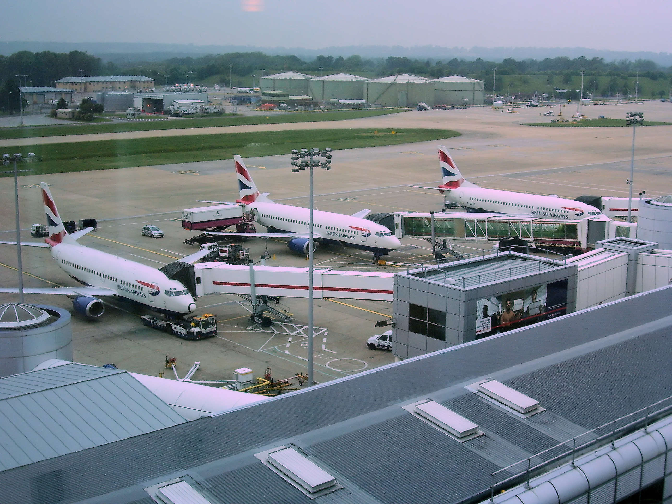 British Airways 737 aircraft parked up at stands at Gatwick's North Terminal, Pier 5.